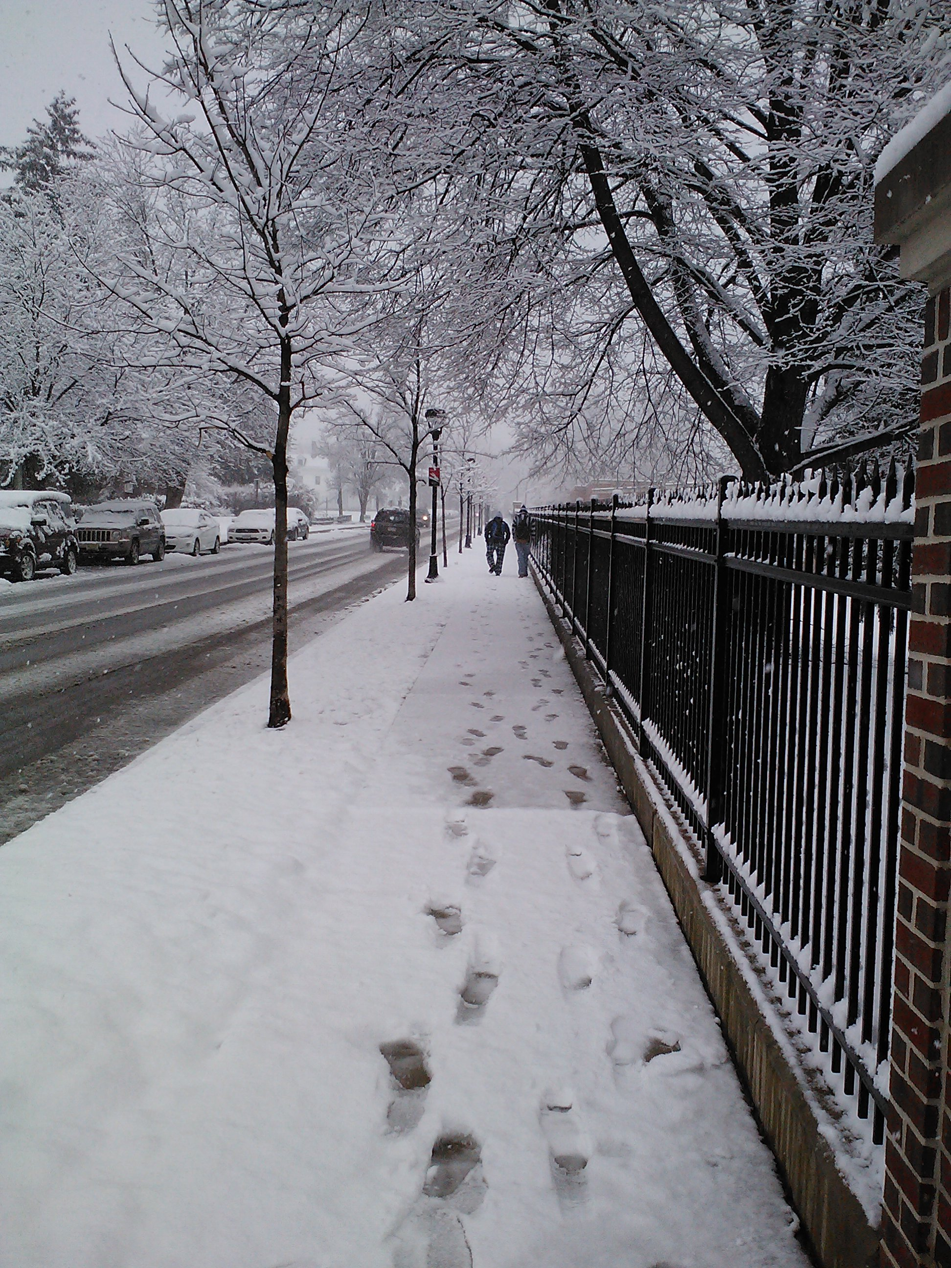 Students walking to class on Springettsbury ave at York College